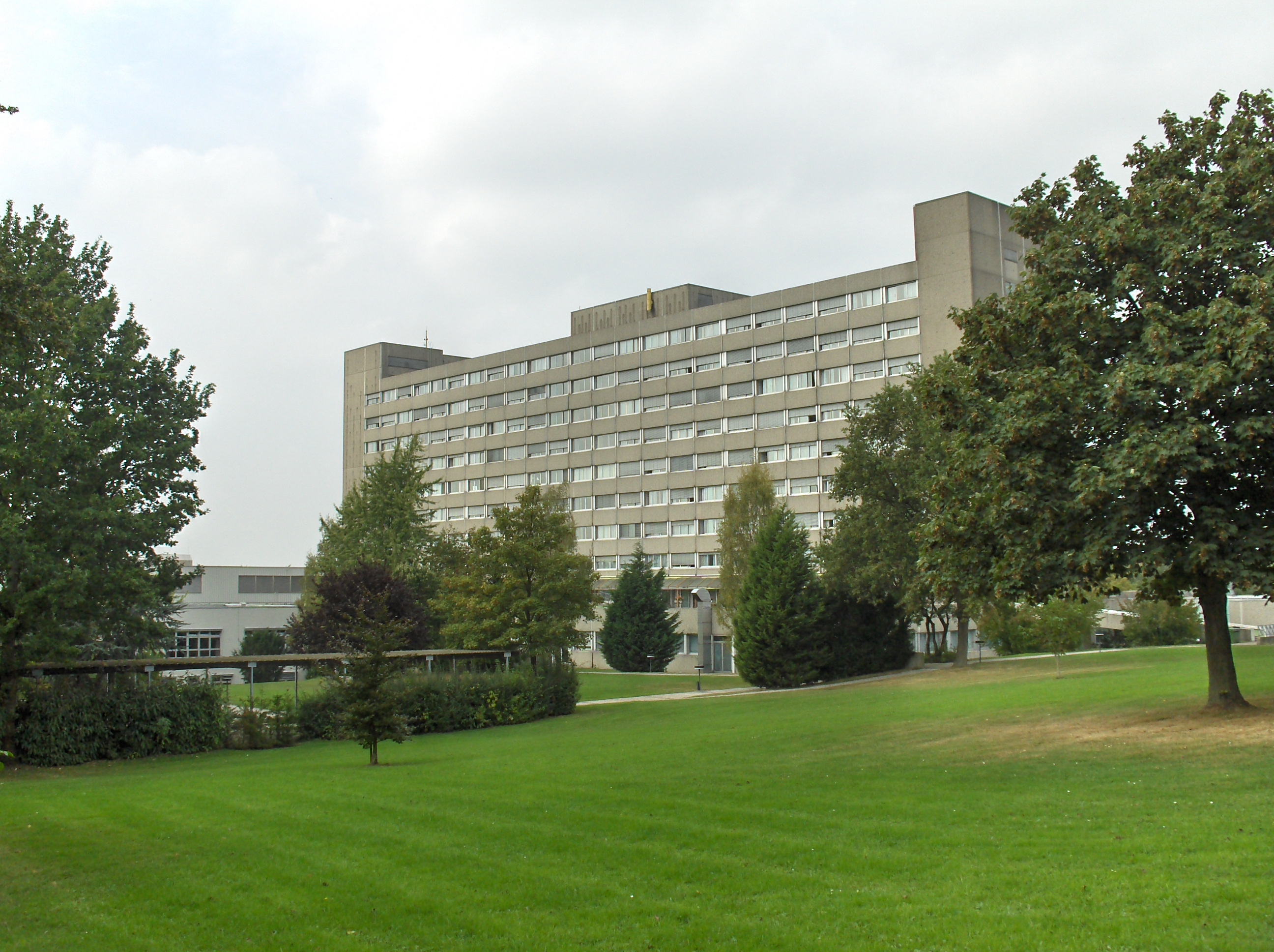 Hospital in town of Herford, District of Herford, North Rhine-Westphalia, Germany.